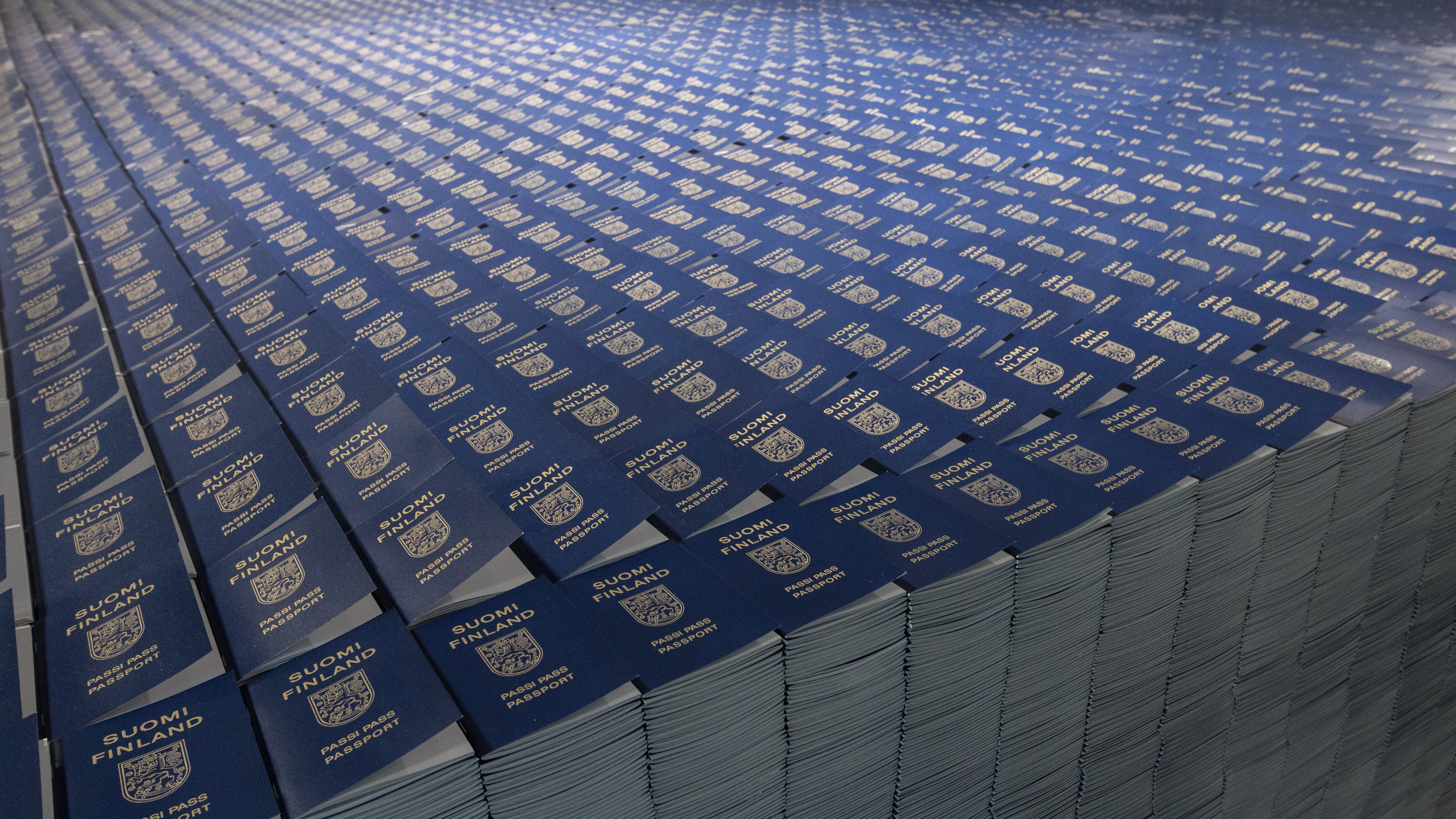 Alfredo Jaar - One million Finnish passports Kiasma Museum exhibition